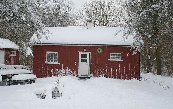 Photo of Jomfruland Fuglestasjon